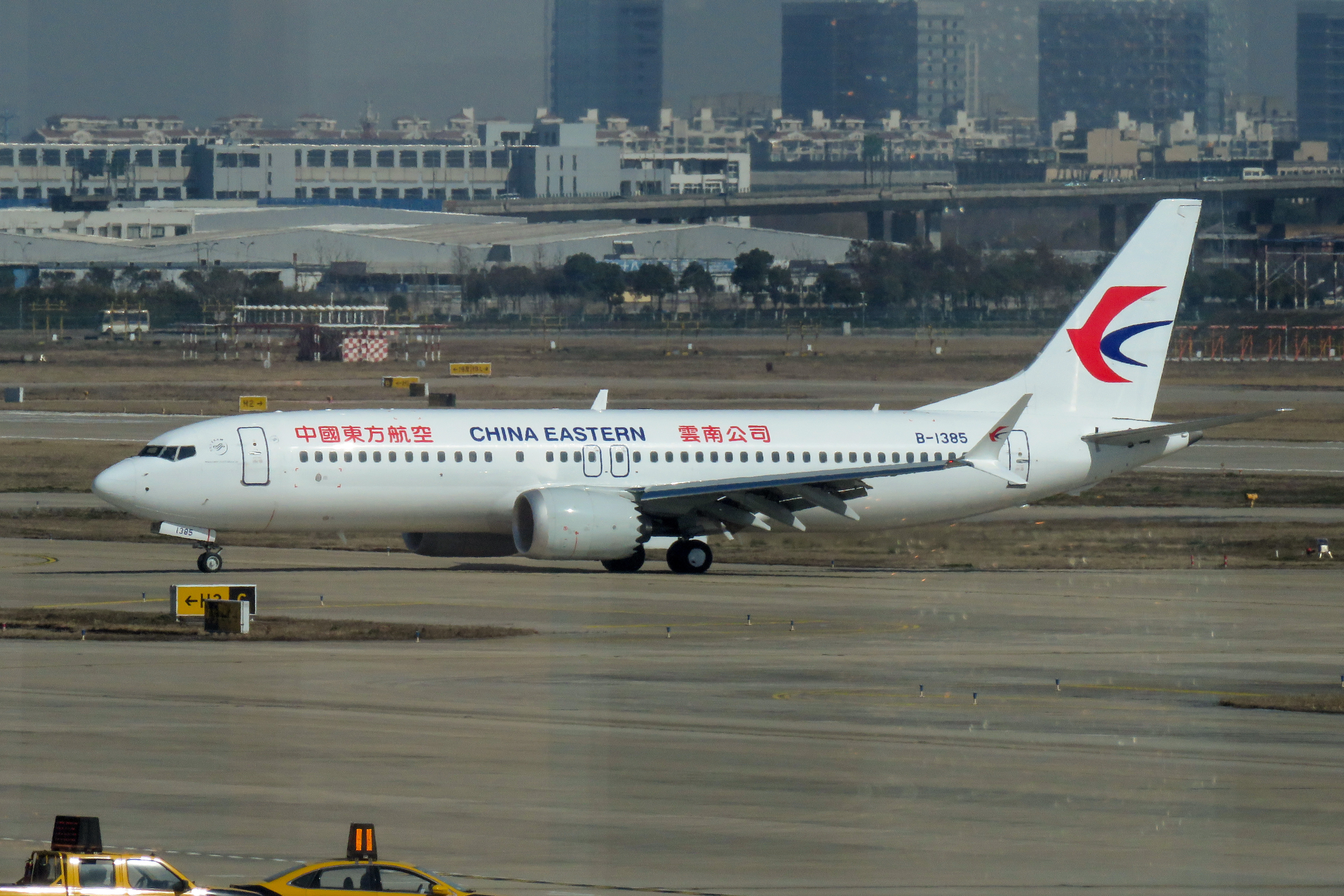 China Eastern 5801 from Kunming. 19 minutes before scheduled time of arrival.